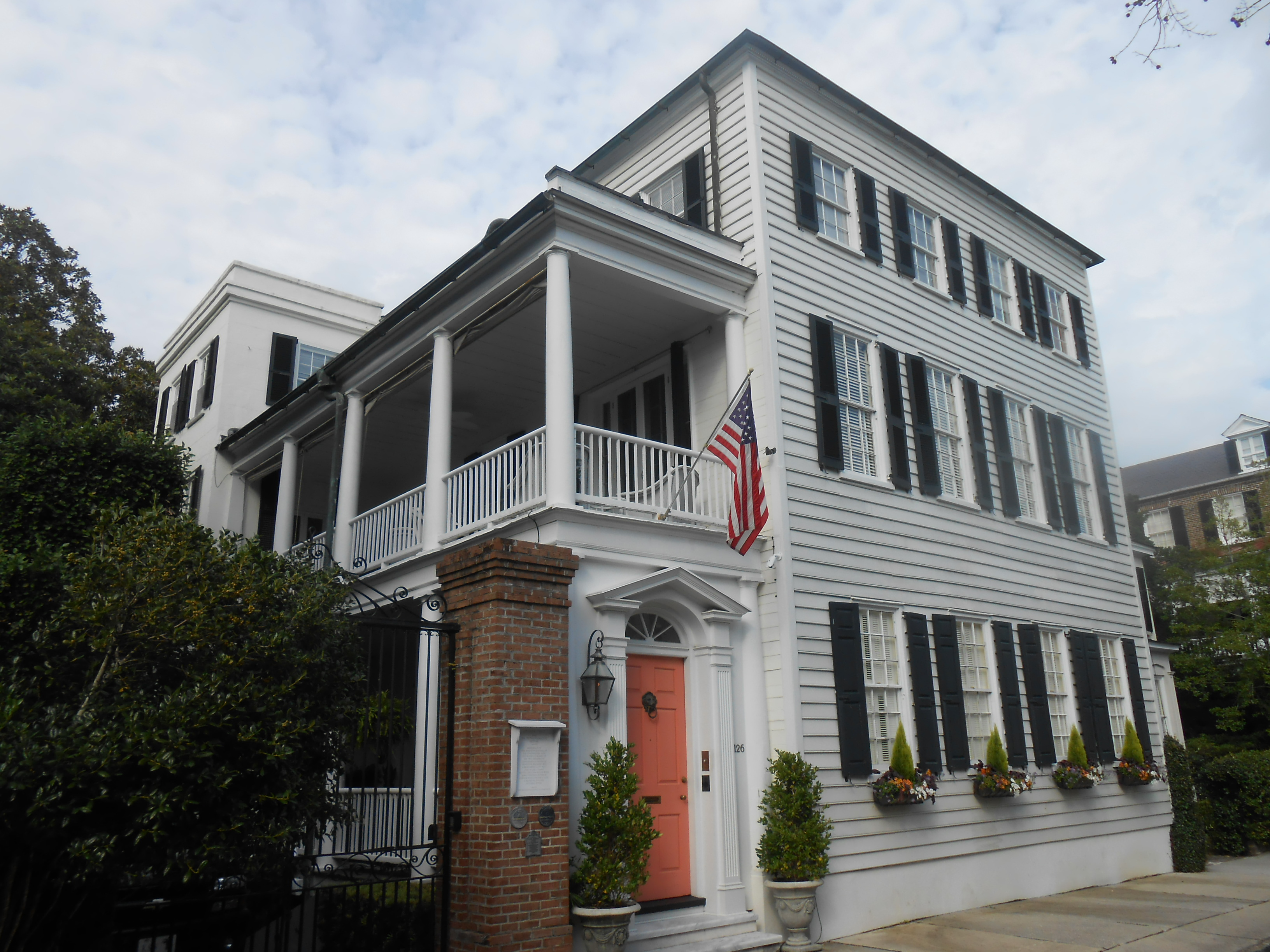 The house at 126 Tradd St. is unusual for being four bays wide.